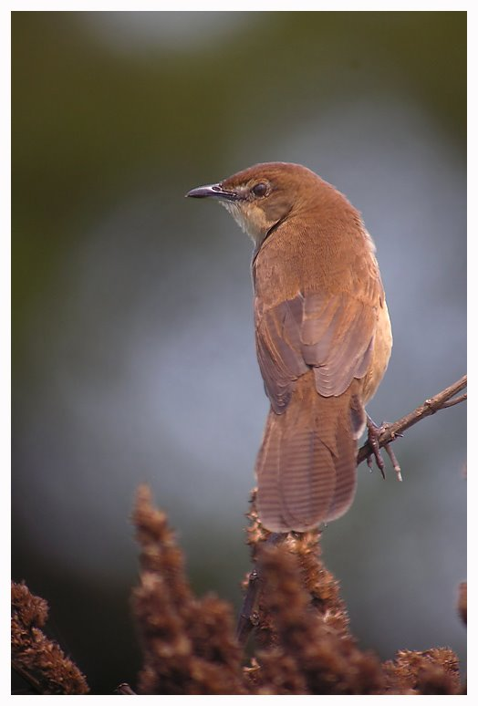 Broad-tailed Grassbird photo taken at Brahmagiri Wildlife Sanctuary, Karnataka, India